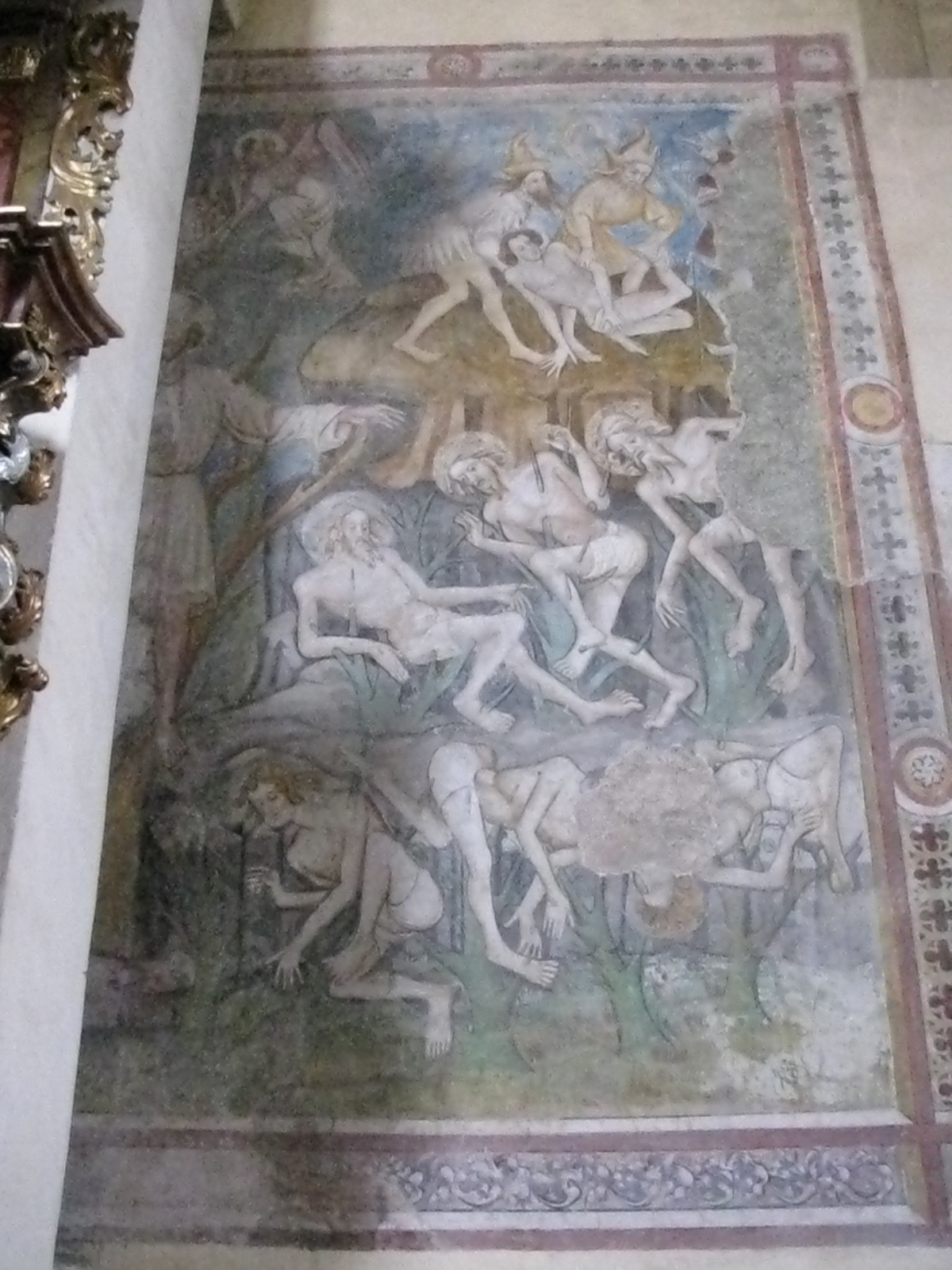 Fresco of St Achatius and the martyrium of the 10,000 (or so) in the Maria im Walde church, Bruck an der Mur, Steiermark, Austria